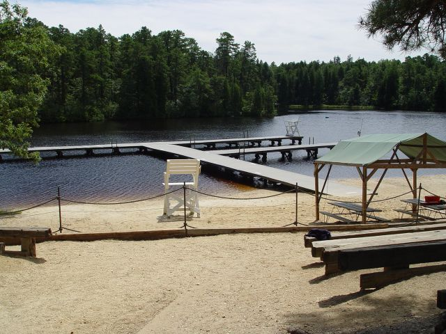 Aquatics.